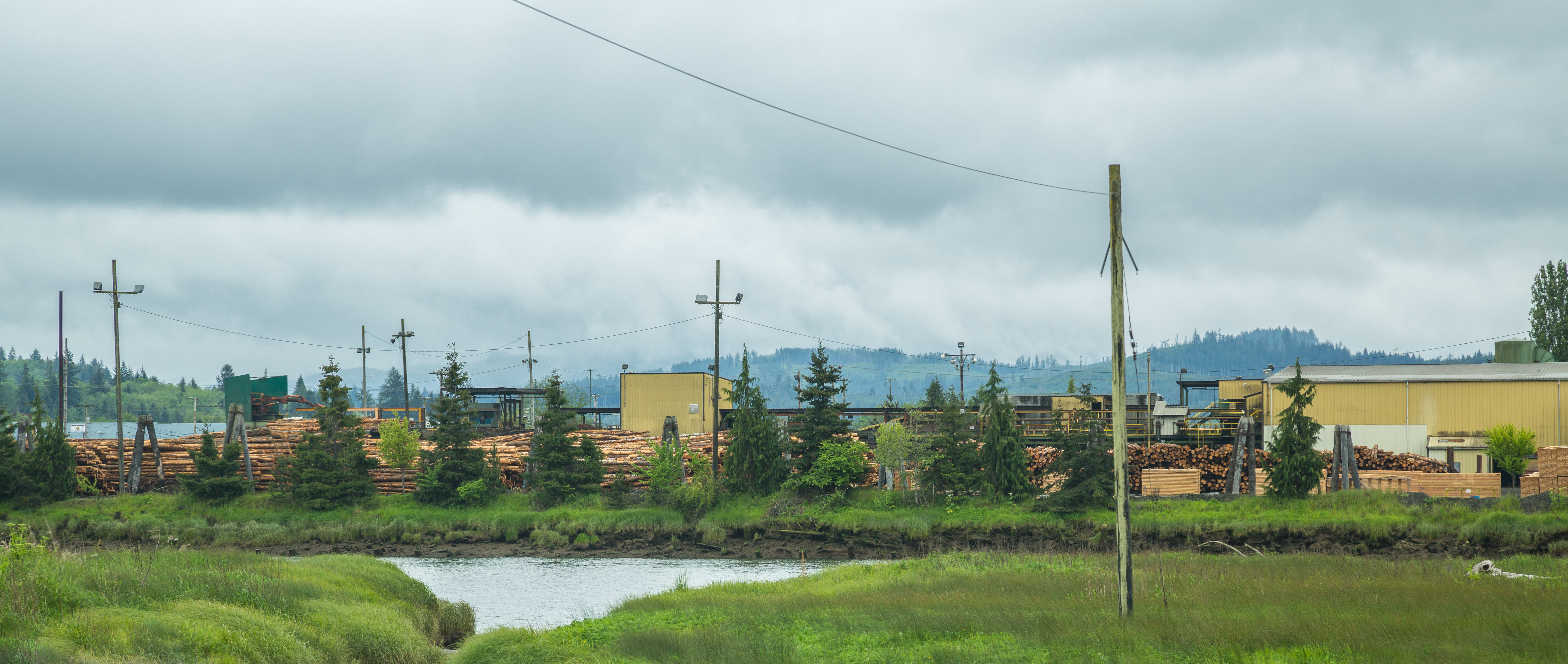 Willapa River, Raymond, Washington